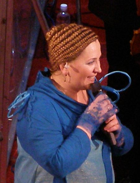 Nino Katamadze - georgian jazz singer